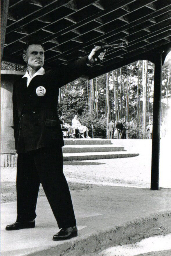 Takács Károly, Hungarian rapid fire pistol shooter, double Olympic Champion (London, 1948 and Helsinki, 1952). After incidental grenade explosion in 1938 resulted right arm amputation becomed disabled left arm shooter. Picture was taken while Poland-Hungary-Yugoslavia competition taken in Bydgoszcz, Poland – 1961. Athor participated that. :-)